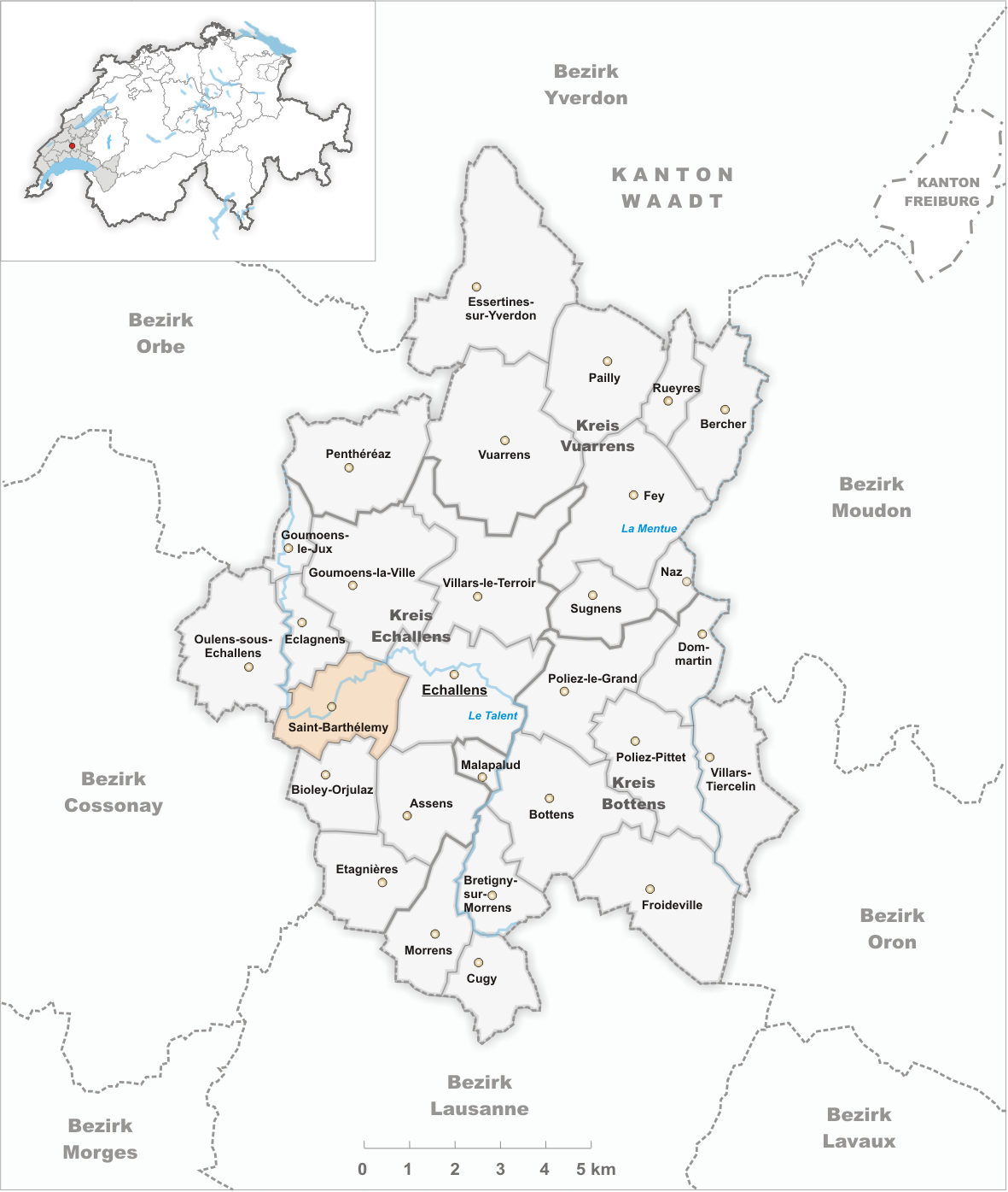 Municipality Saint-Barthélemy